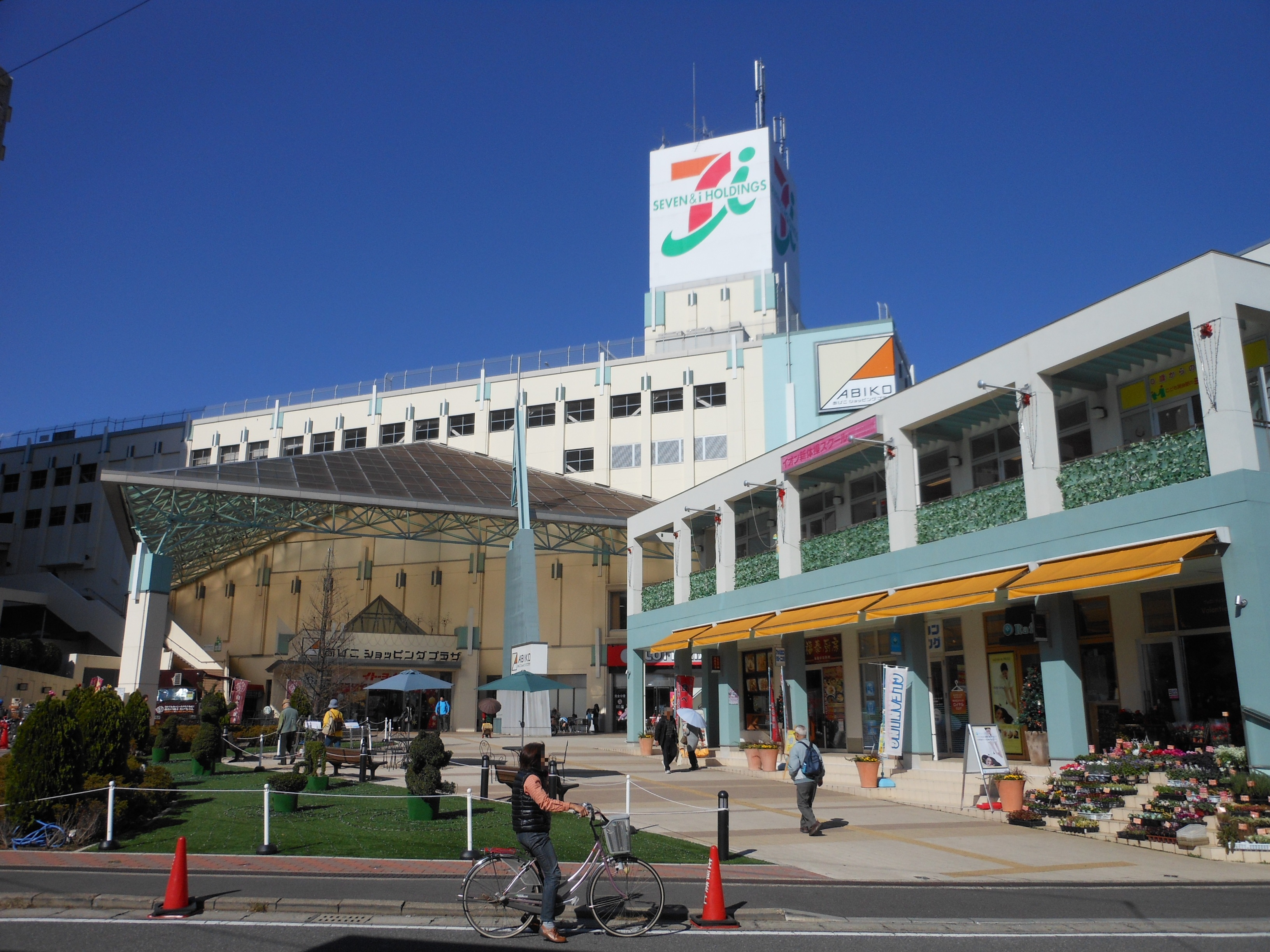 This is the Abiko Shopping Plaza in Abiko, Chiba, Japan.